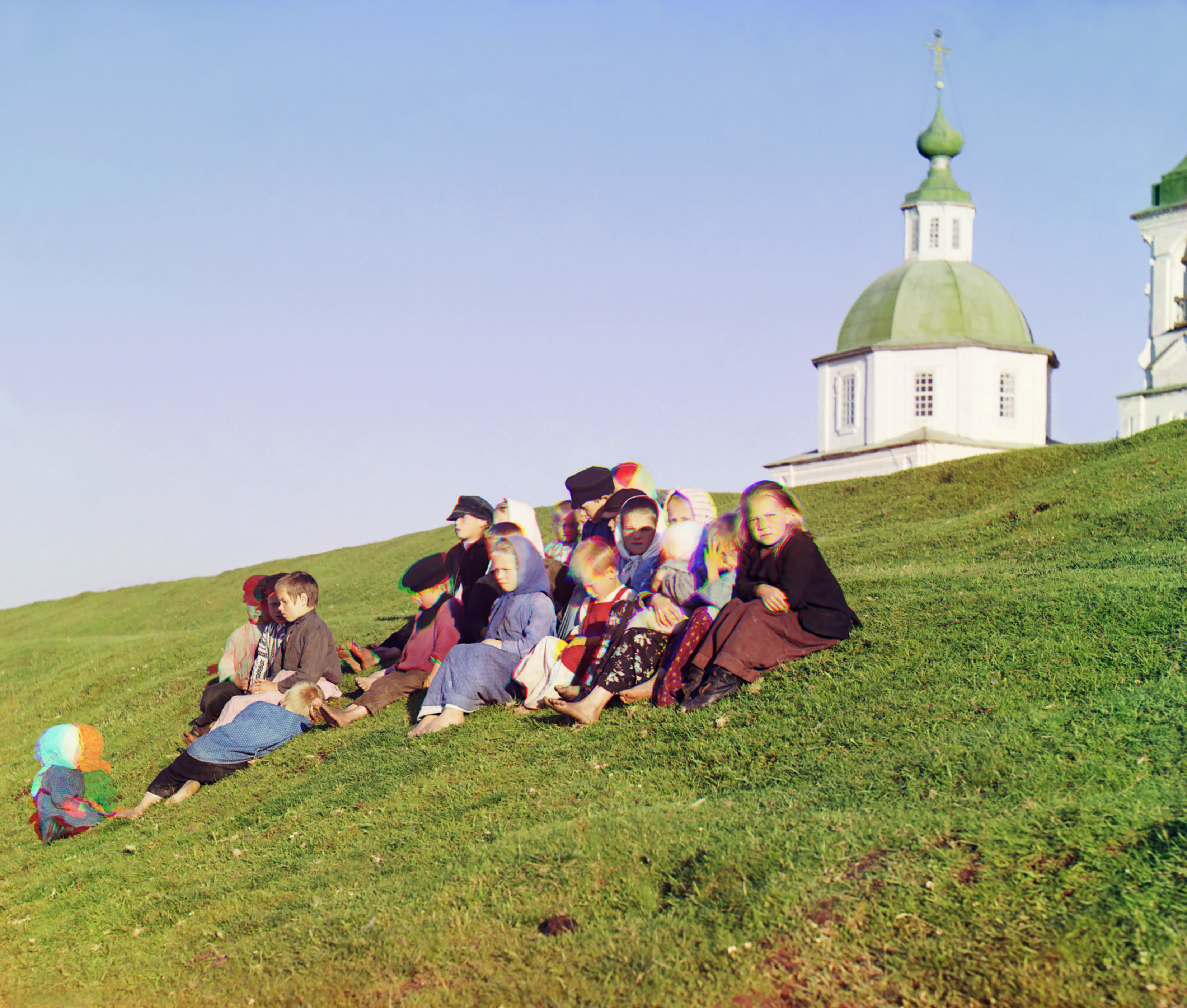 Group of children. [Russian Empire]. Russian children sitting on the side of a hill near a church and bell tower in Belozyorsk, in the north of European Russia.